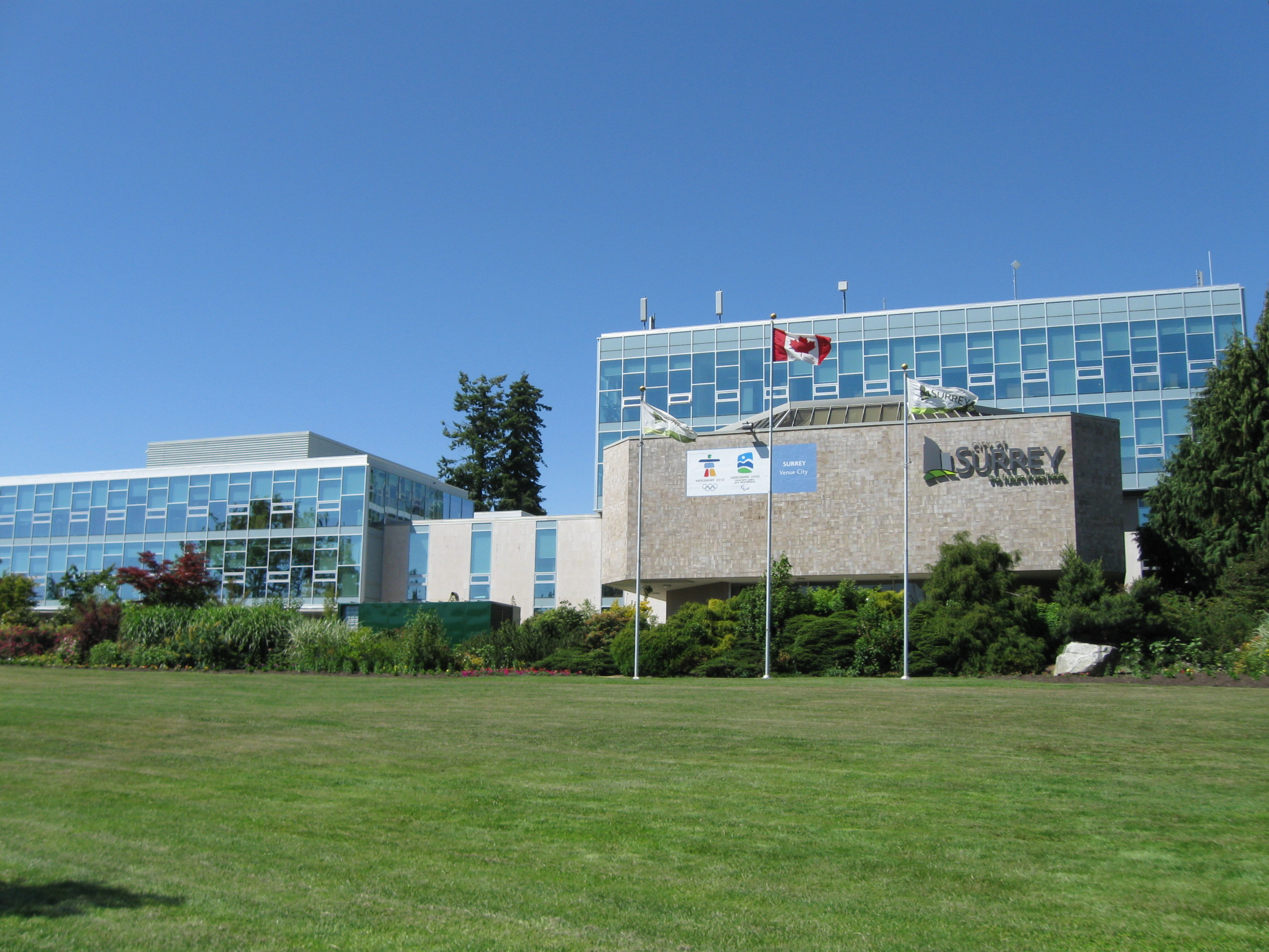 This is a north facing view of the present City of Surrey municipal hall where the local civic leaders work. It is located at 14245 56 Avenue in Surrey, British Columbia, Canada. This picture was taken on Canada Day (July 1) in 2009.